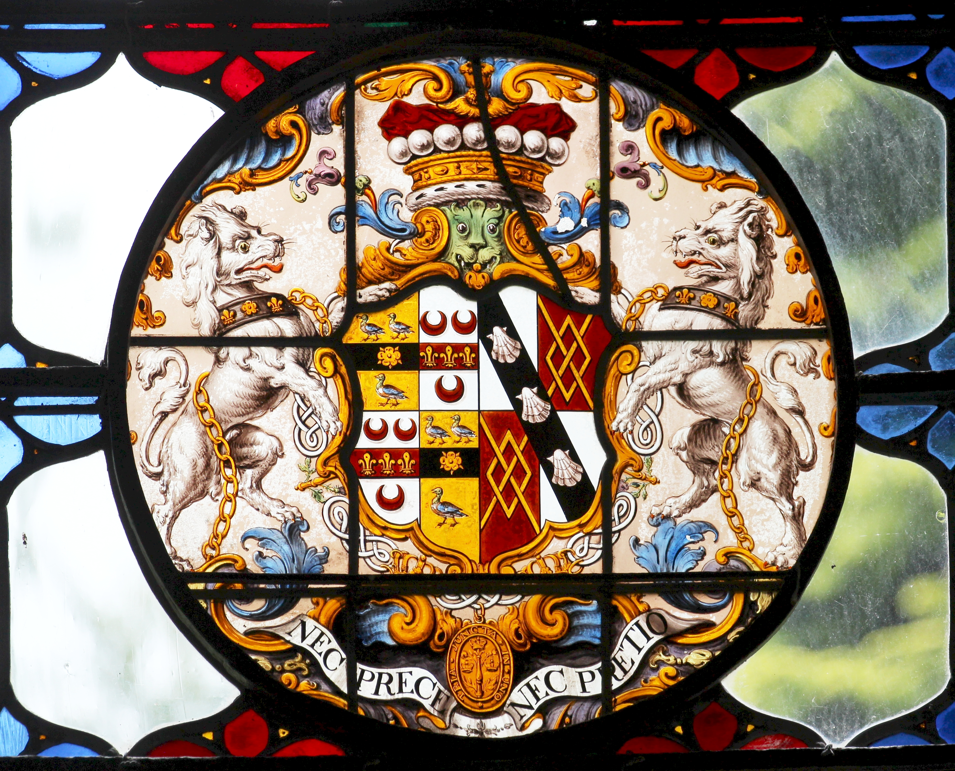 Coat of arms of Bateman family, Viscount Bateman, woth insignia of Order of the Bath below. Impaling Spencer. Shobdon Church. William Bateman, 1st Viscount Bateman KB, FRS (1695 – December 1744), of Shobdon Court, Herefordshire. He married Lady Anne Spencer, daughter of Charles Spencer, 3rd Earl of Sunderland and Lady Anne Churchill, daughter of John Churchill, 1st Duke of Marlborough, in 1720. He died in Paris in December 1744